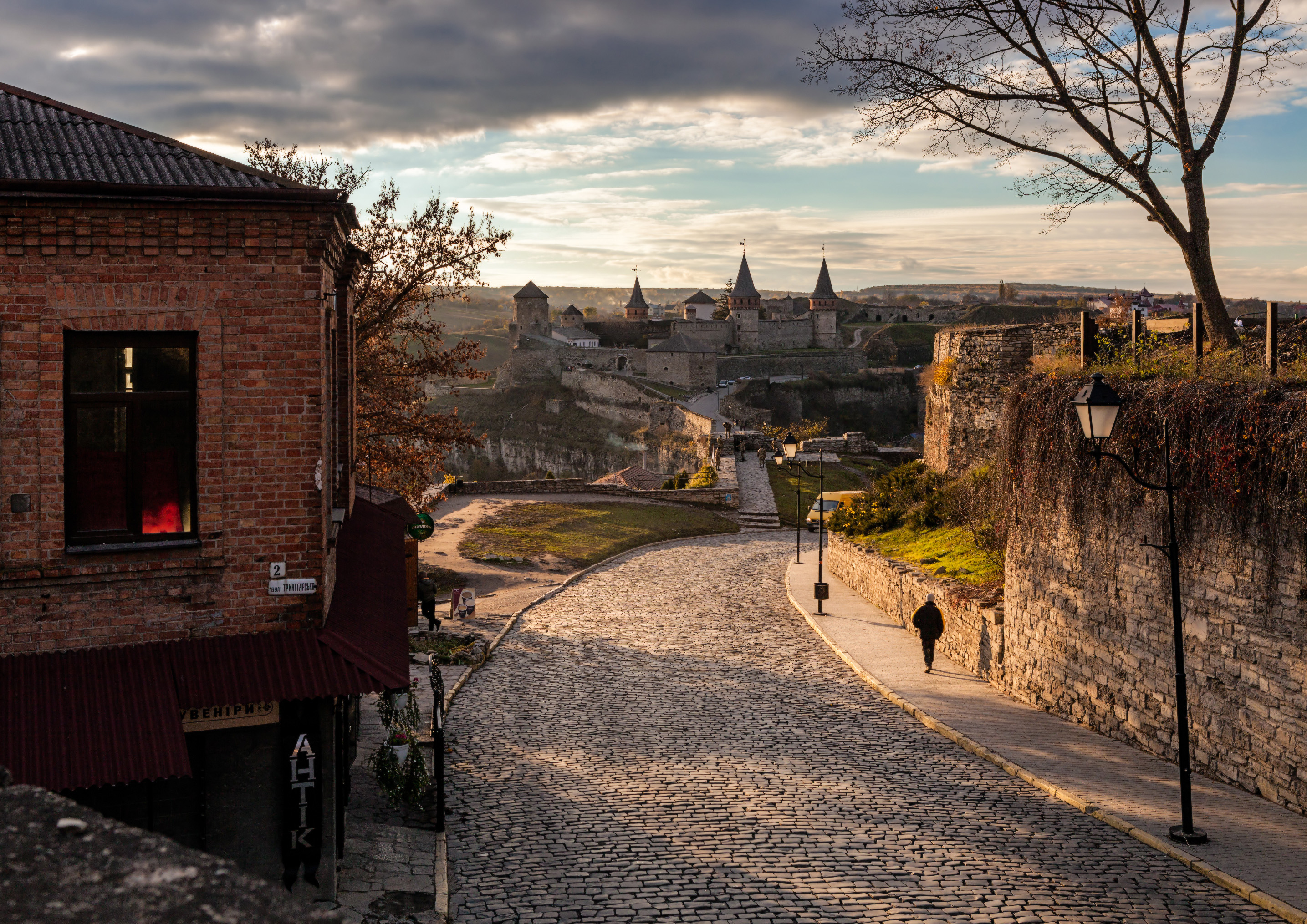 Kamianets-Podilskyi Castle